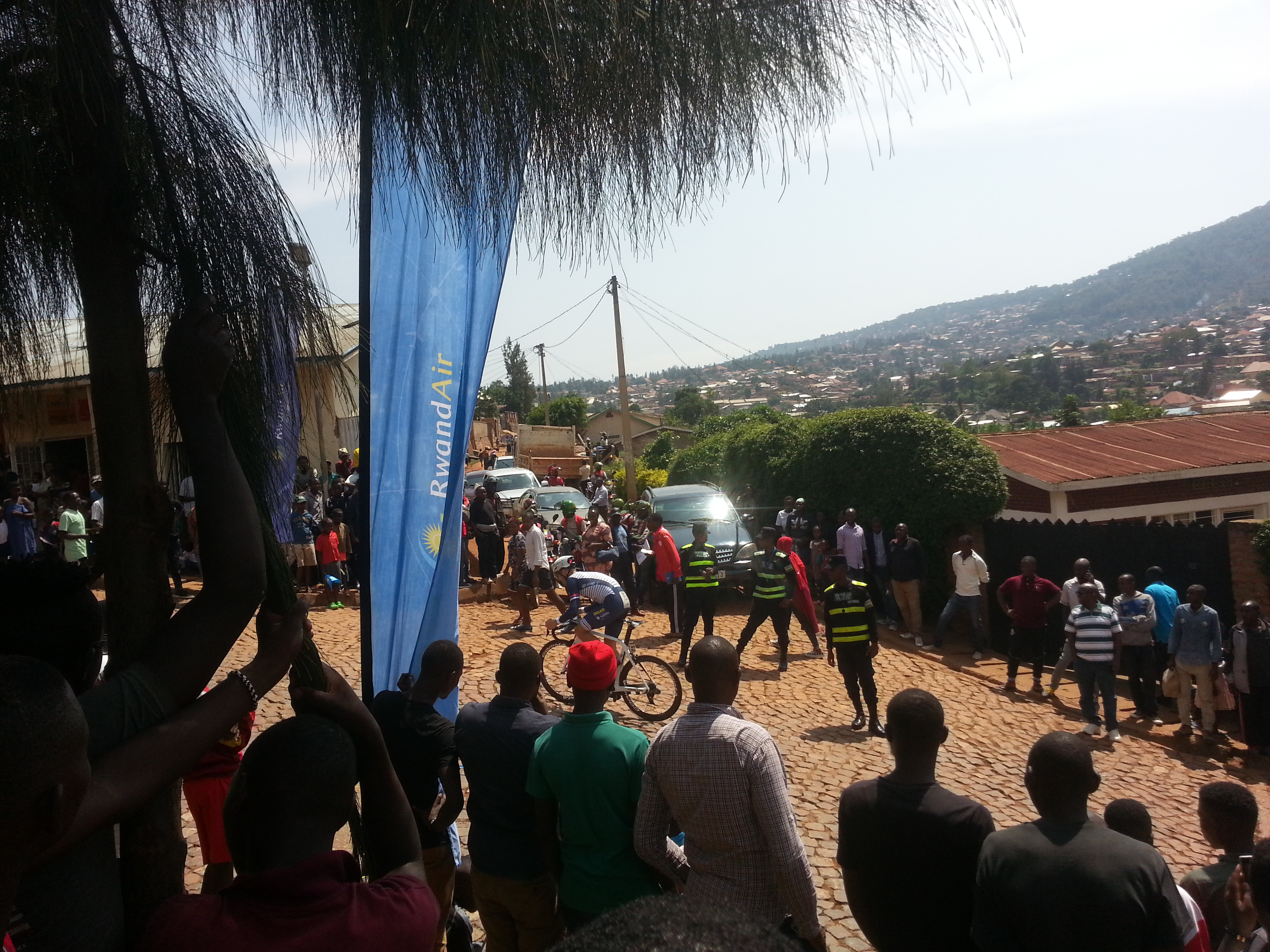 Kinyarwanda: Igiti This is an image with the theme "Africa on the Move or Transport" from: Rwanda